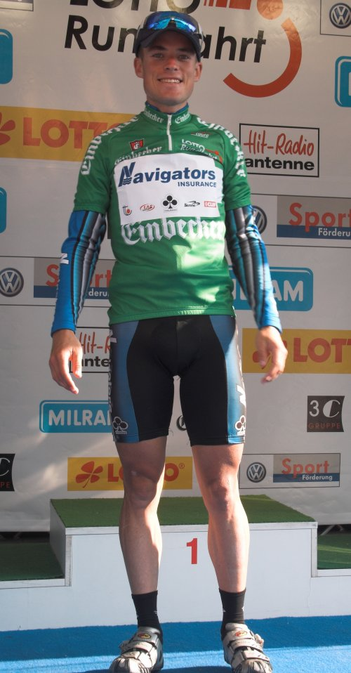 Darren Lill at the victory ceremony of the Niedersachsen-Rundfahrt 2007 in Duderstadt, Germany